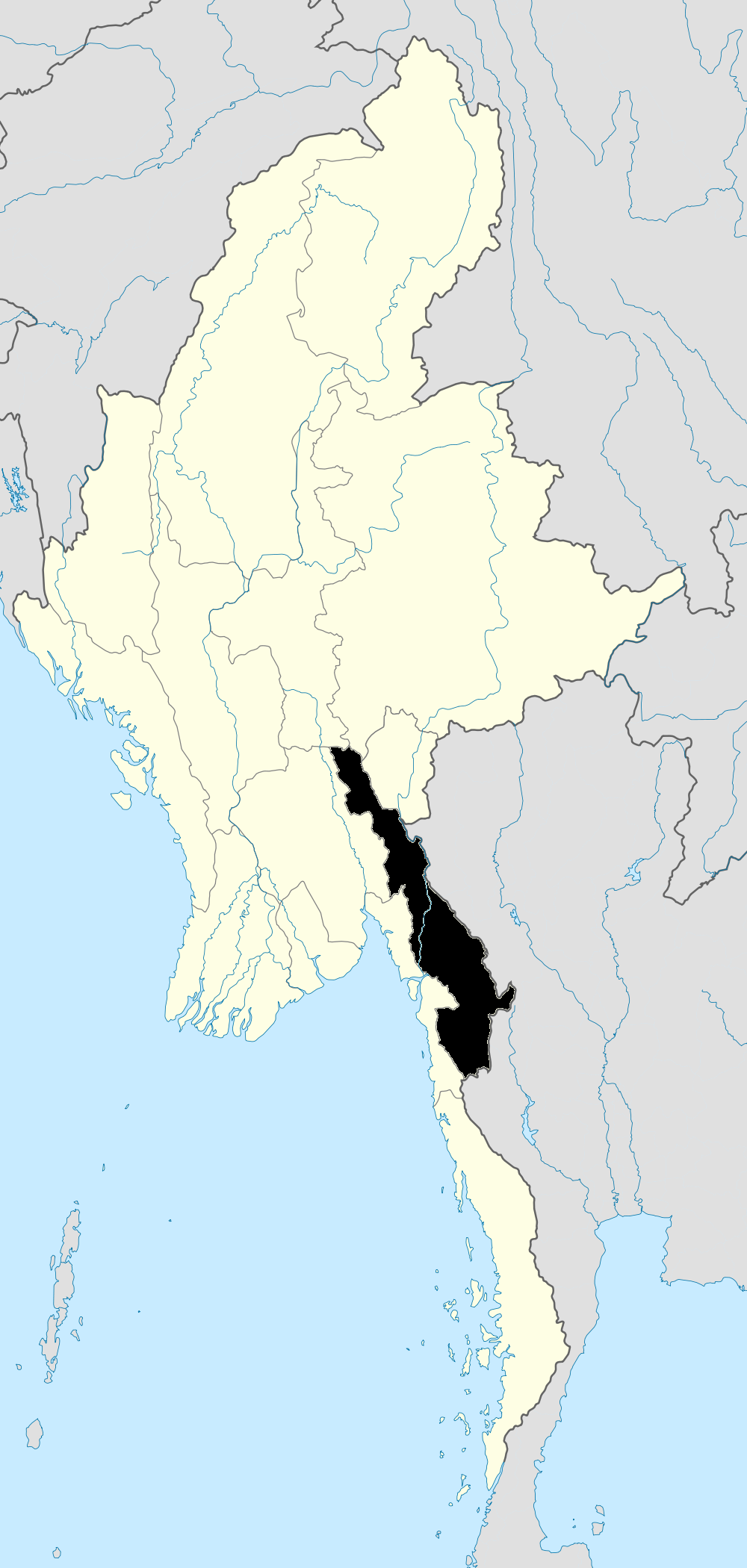 Map showing Kayin State in Burma